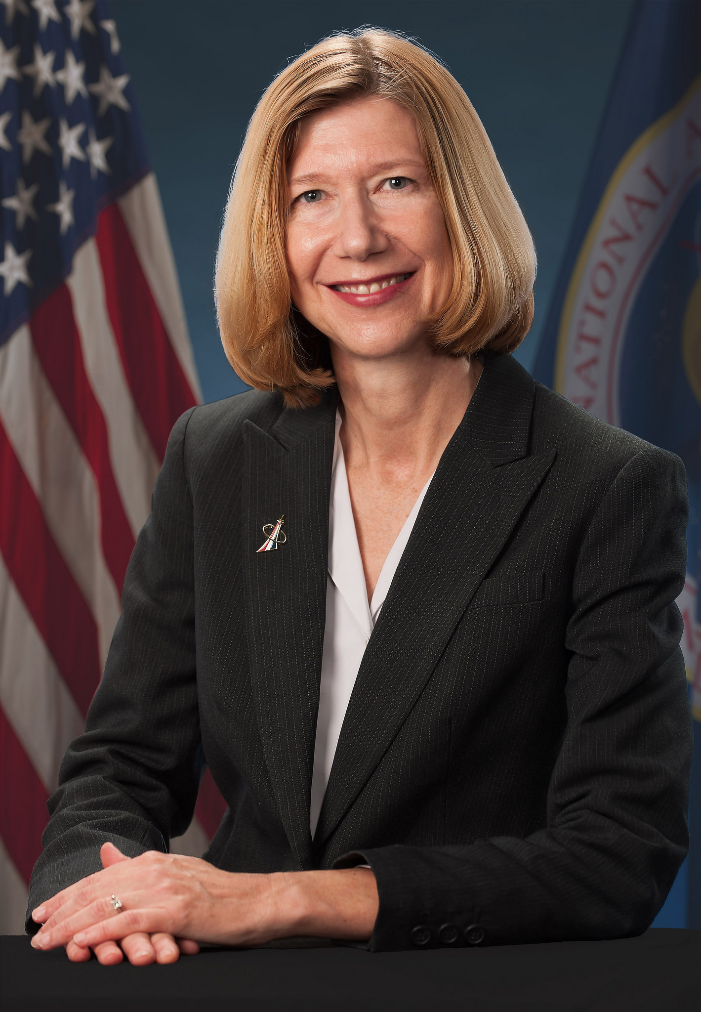 Professional NASA portrait of Kathryn Lueders